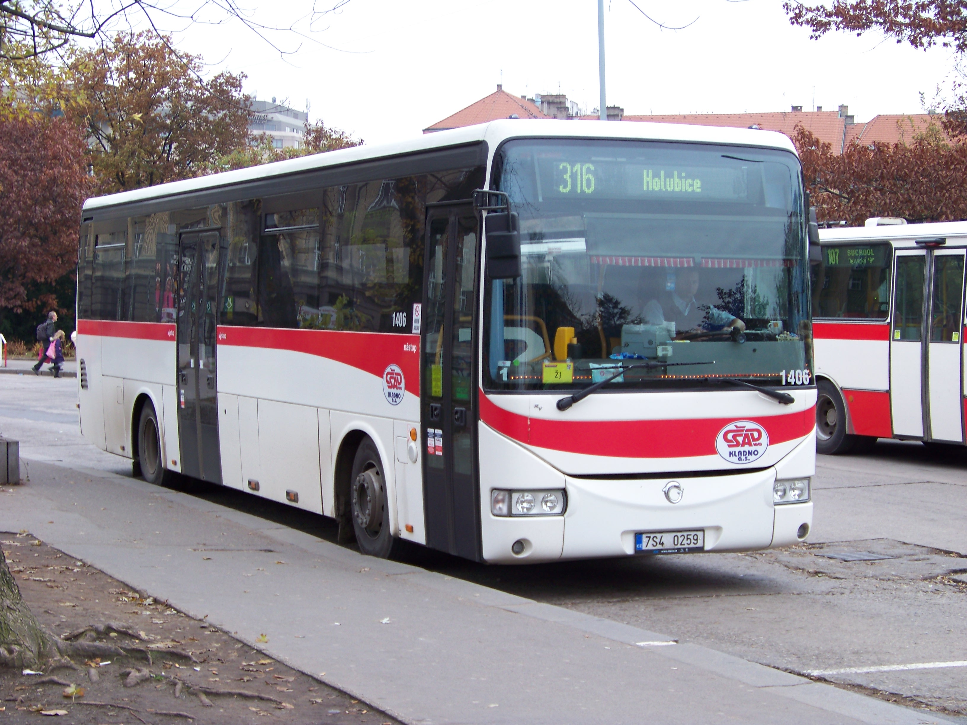 Dejvice, Prague, the Czech Republic. A bus.